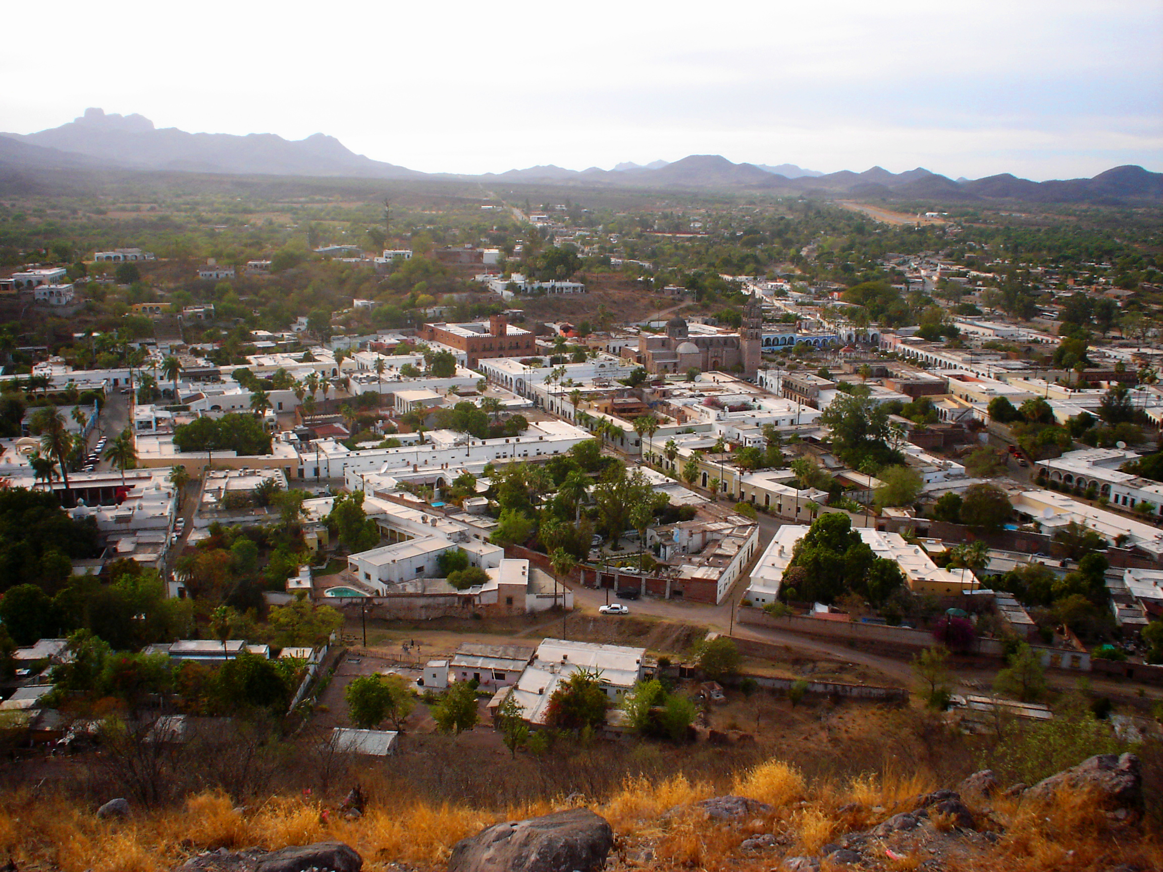 View of Álamos from a mirador — the Pueblo Mágico town located in Sonora state, México.